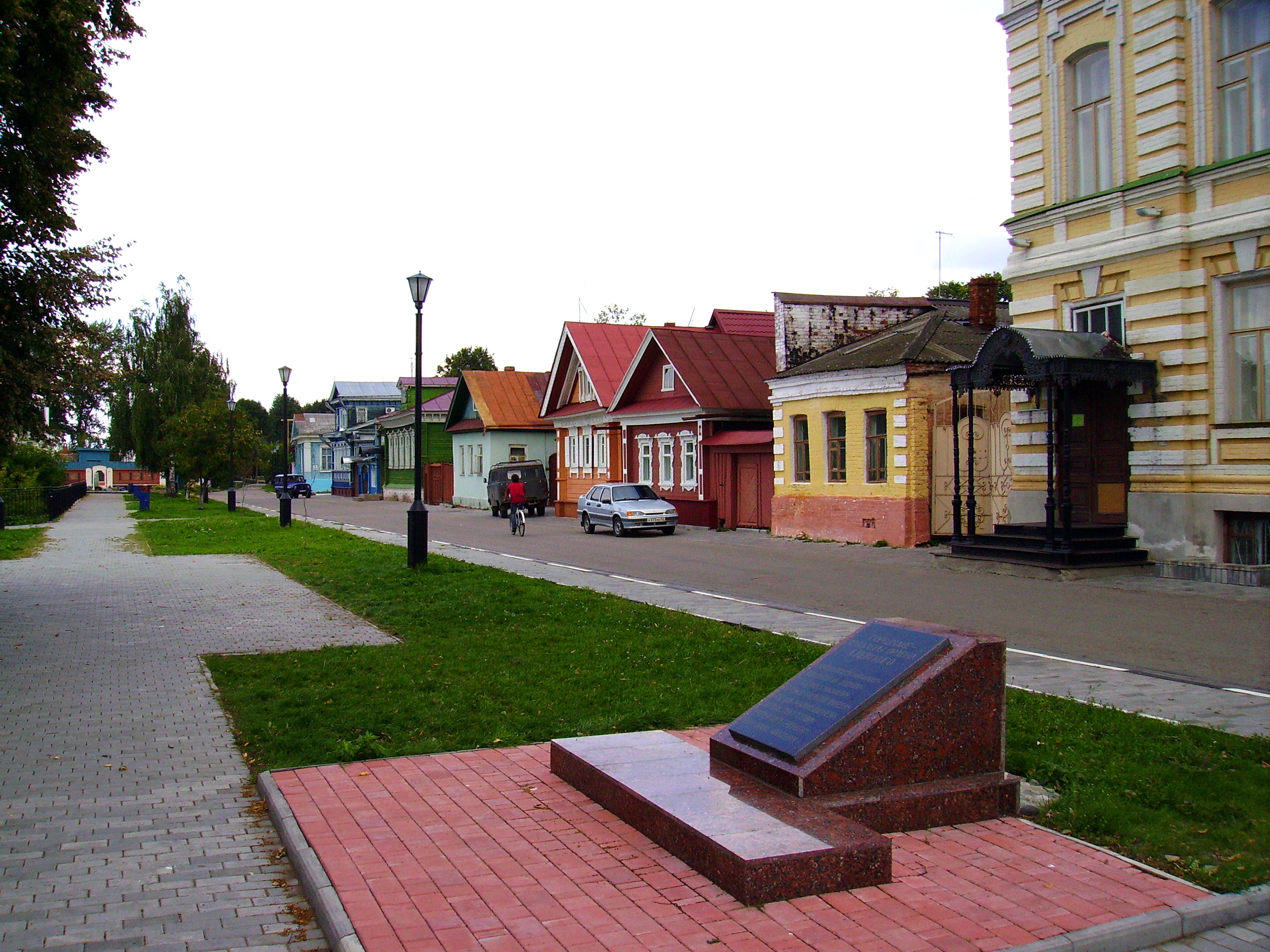 Revolution Quay